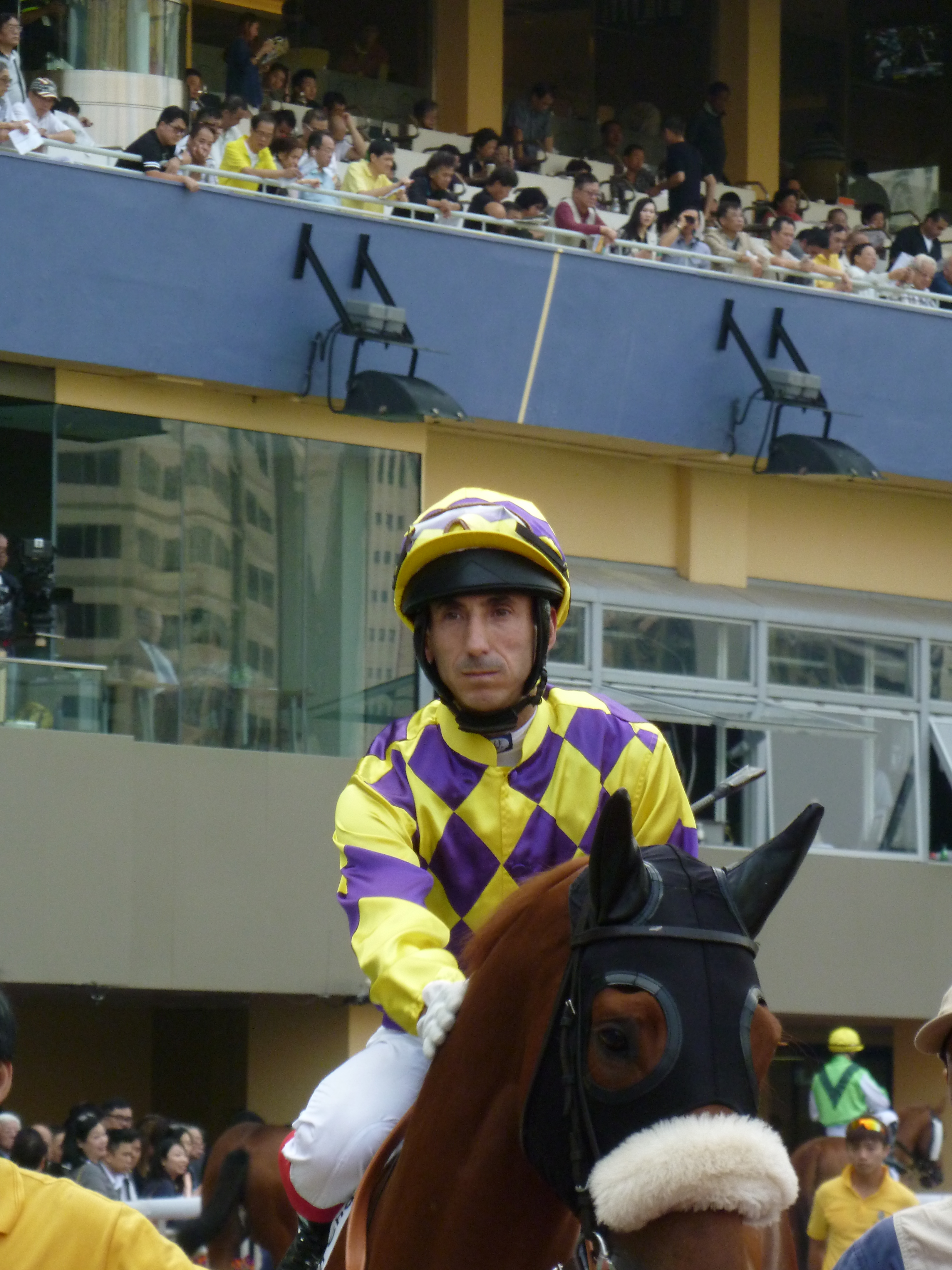 Olivier Doleuze (20 Oct 2013, Happy Valley Racecourse) 中文（香港）: 杜利萊 (20 Oct 2013, 跑馬地日馬)